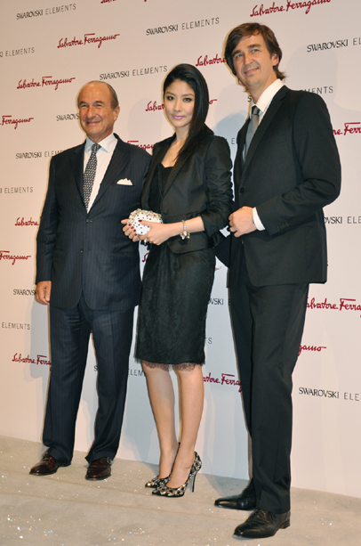 Kelly Chen